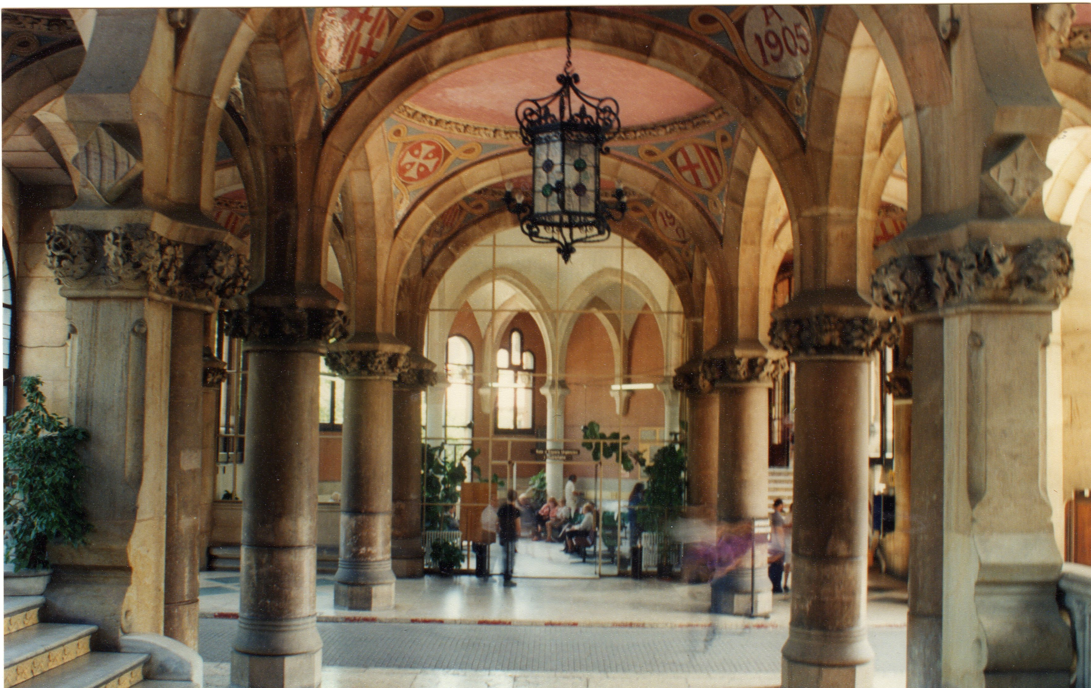 Interior of Sant Pau hospital in Barcelona